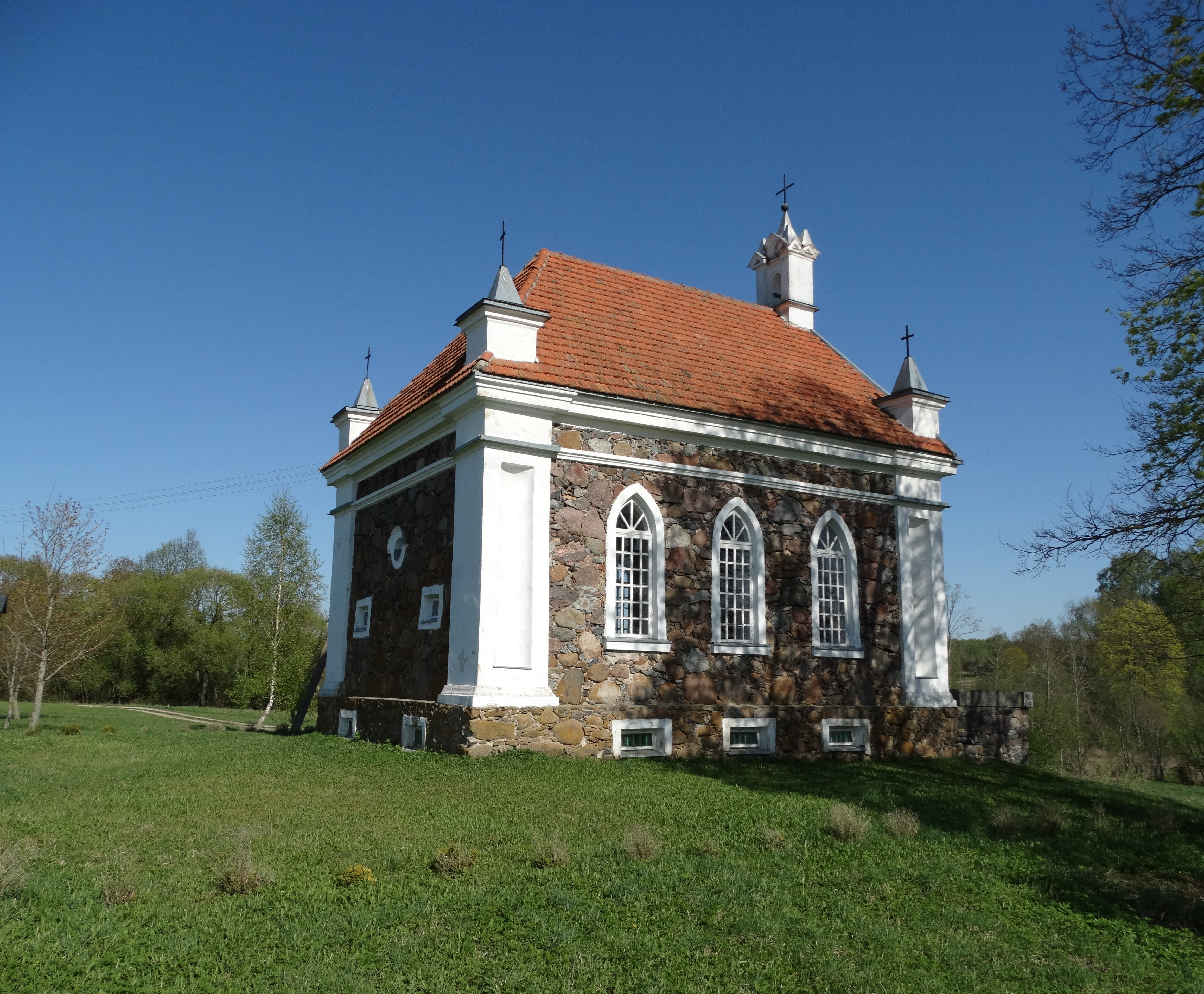 Chapel in Rodai, Panevėžys District, Lithuania